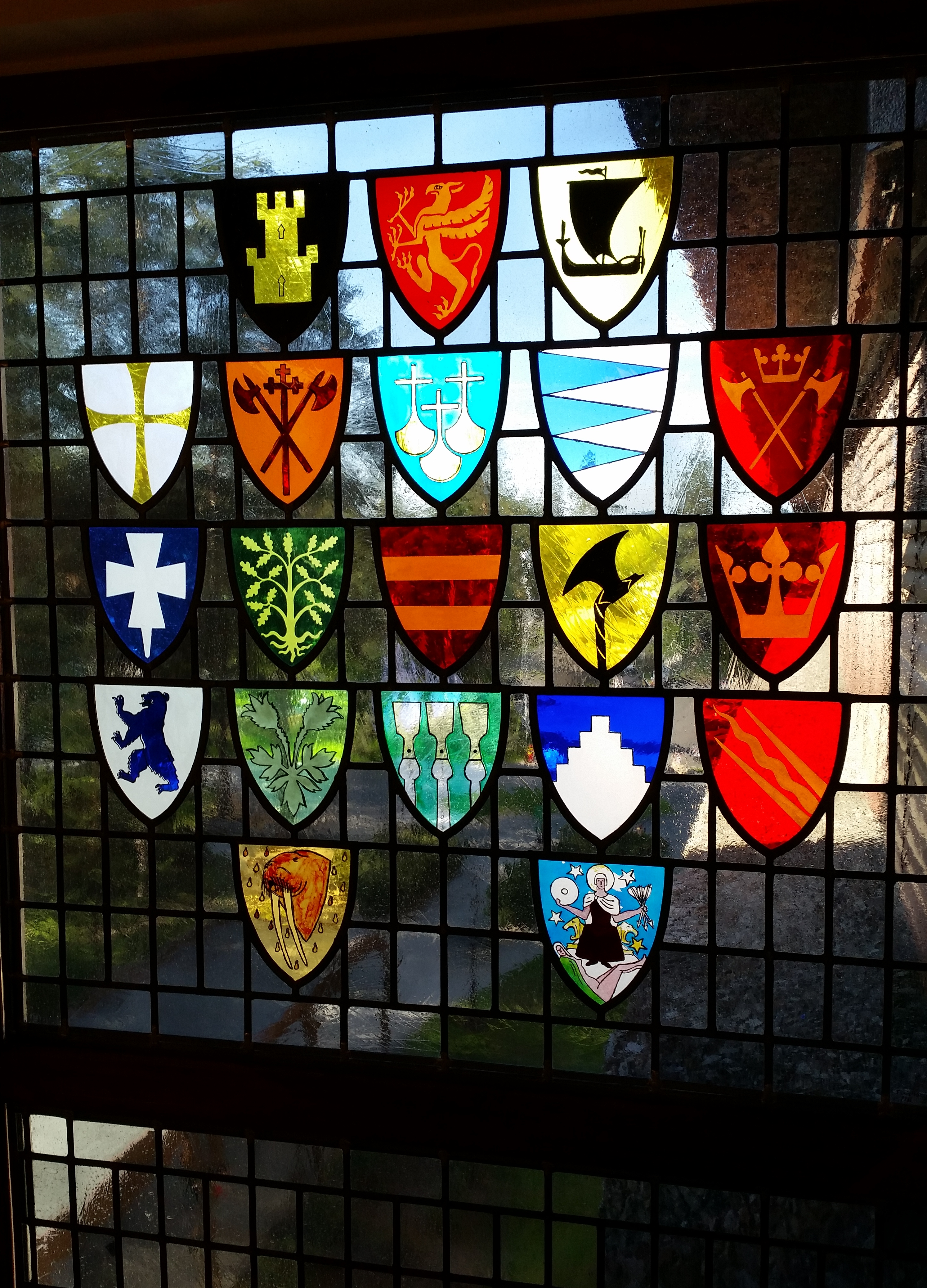 Stained glass with Norwegian county coat of arms